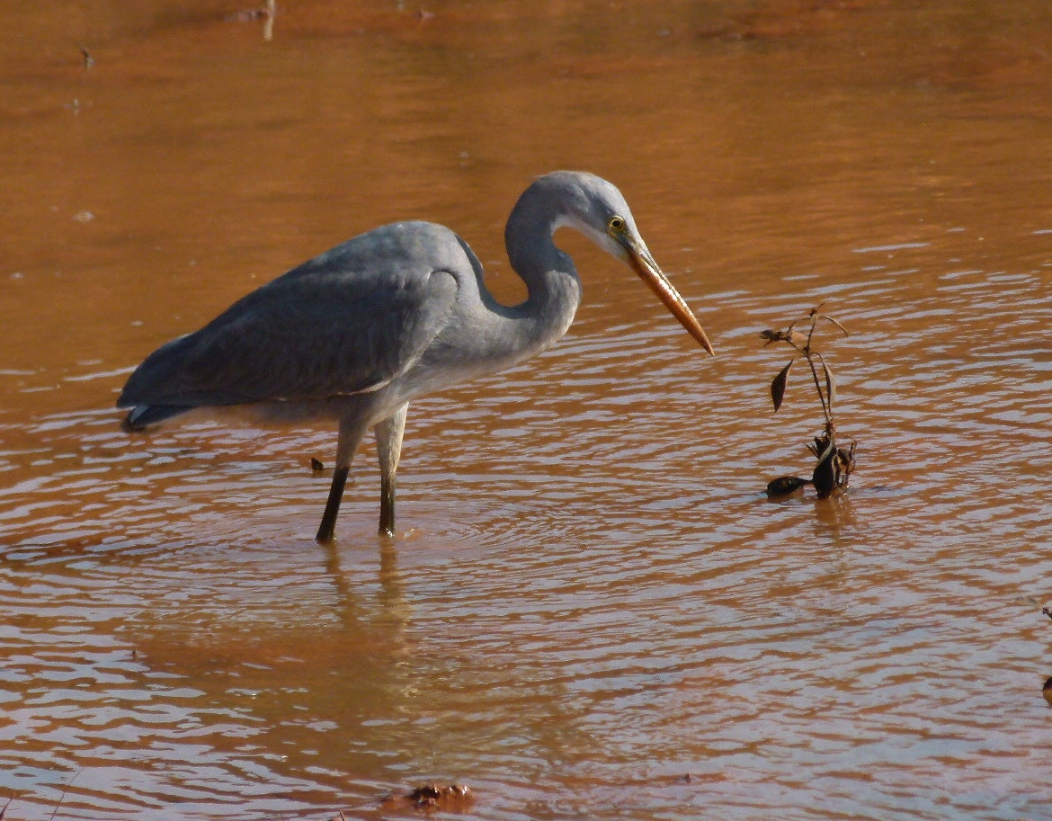 Western reef heron, Egretta gularis. Hessarghatta, Bangalore (December 2012)